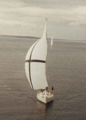 SY Rhe, flagship of Segelclub Rhe, Germany's eldest Yacht Club